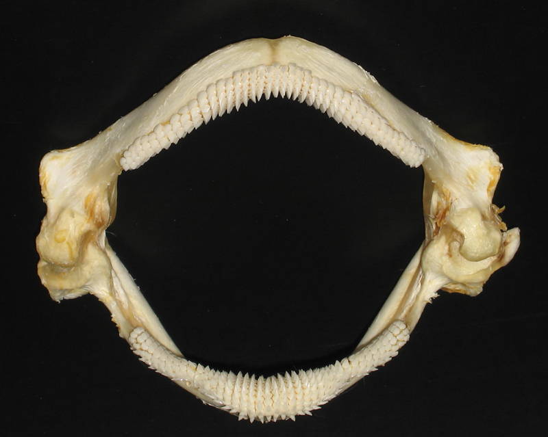 Raja clavata jaw